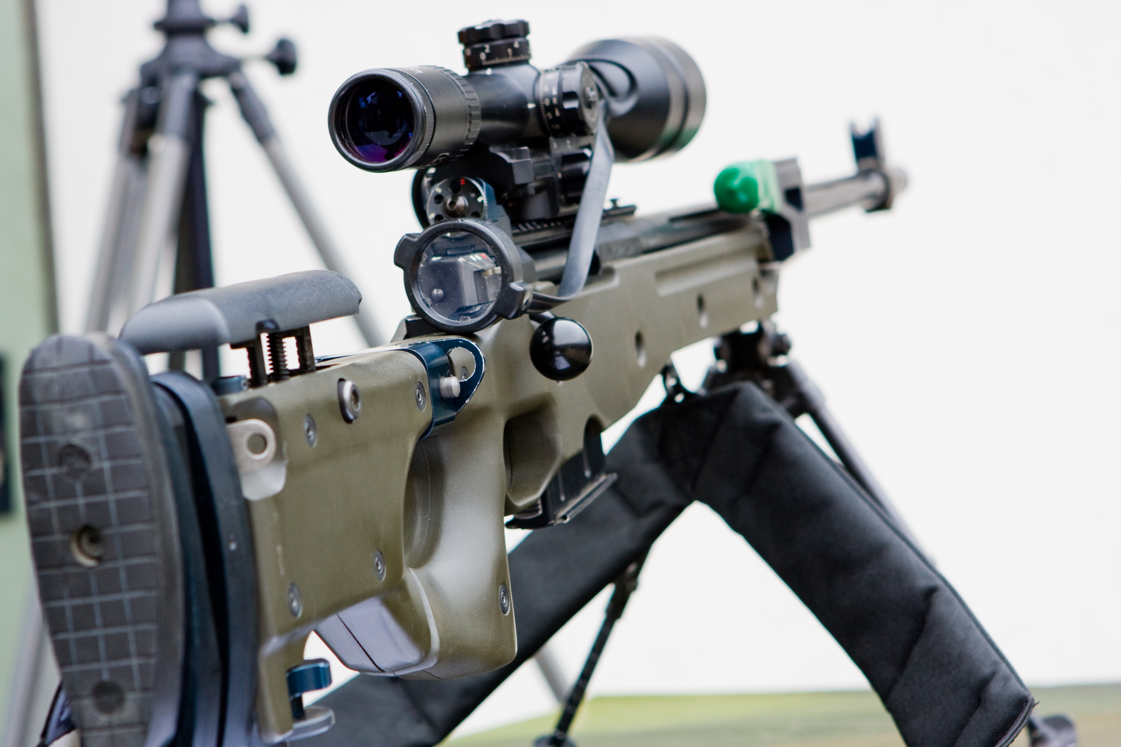 Accuracy International G22 Arctic 7.62mm Sniper Rifle